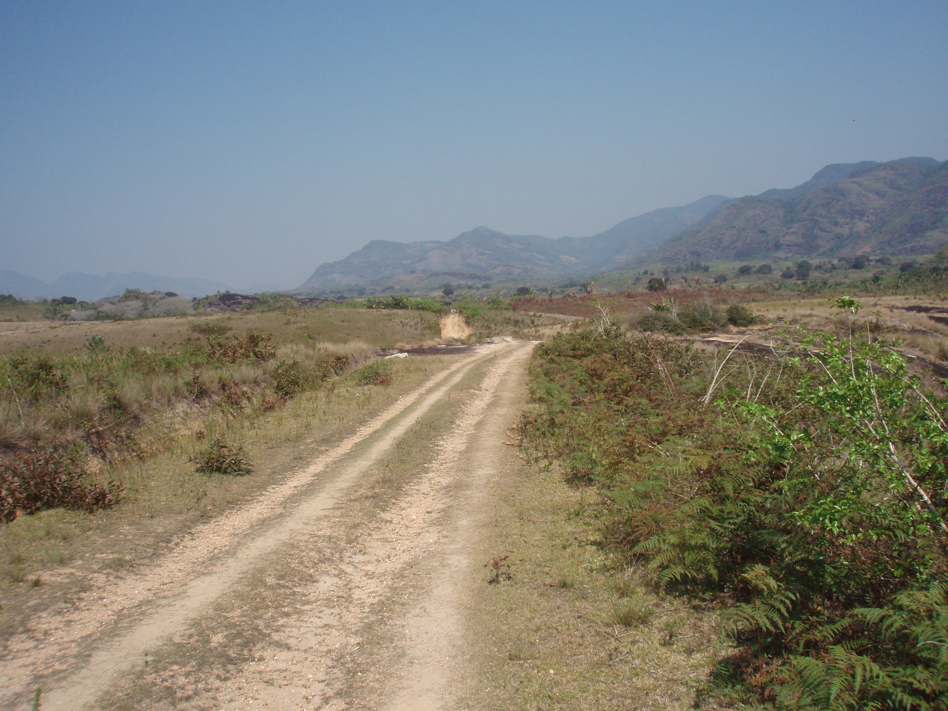 National Road 12a in Madagascar, about 20 km north of Toalgnaro